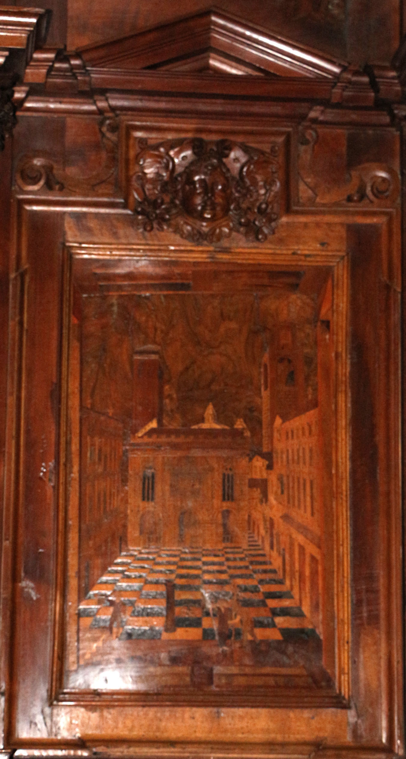 Santi Bartolomeo e Stefano (Bergamo)